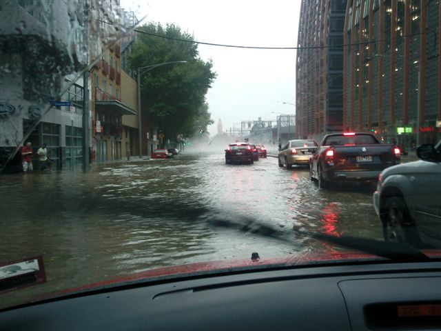 Flash flooding in Flinders Street in central Melbourne during the 2010 Melbourne thunderstorm. Photo taken by myself, March 6, 2010.